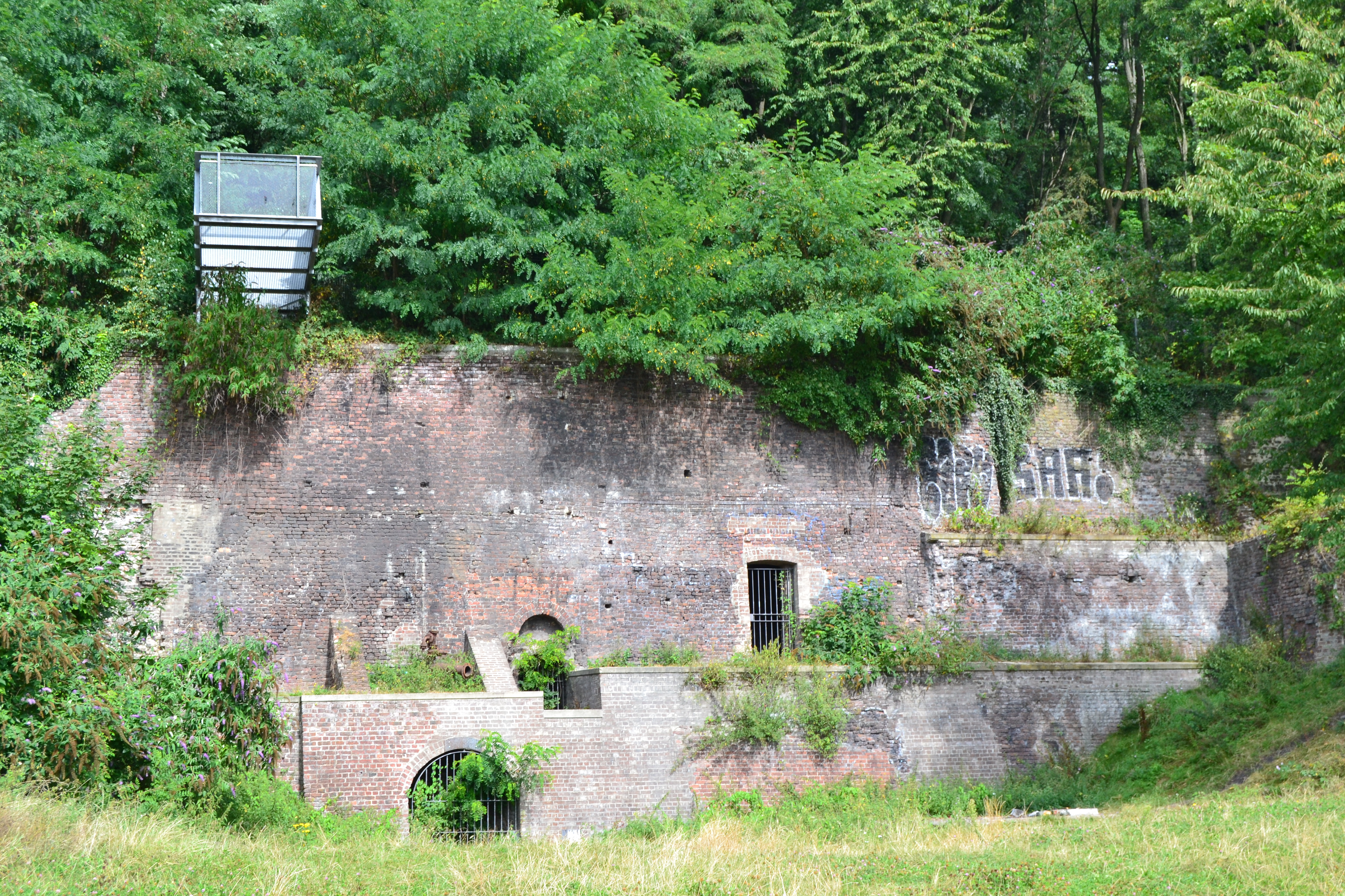 Ancient pit of the Bâneux coal mine in Liège, Belgium, in the Vivegnis borrough